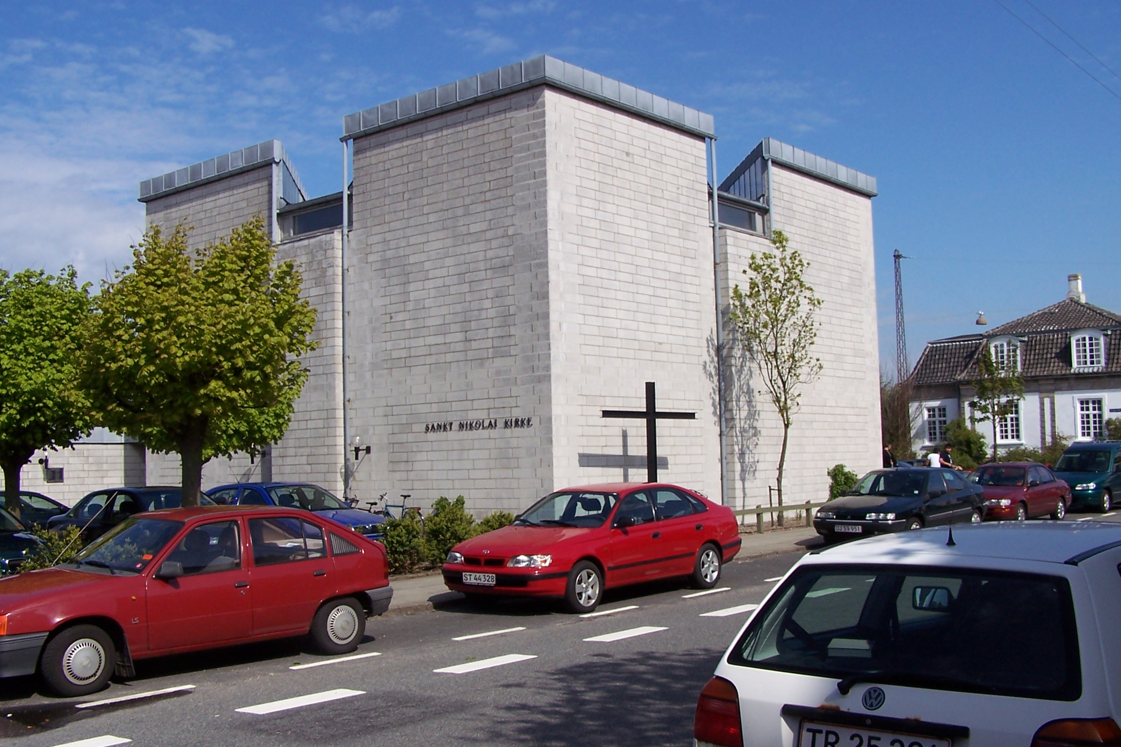 Esbjerg, St Nikolaj kirke (St. Nicholas' Catholic Church). Photo by Cnyborg, May 2005.